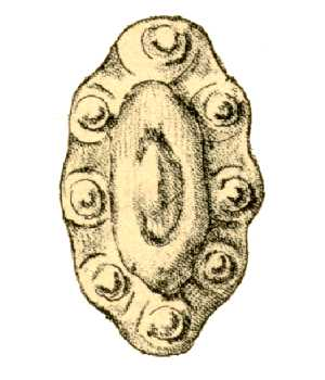 Indian white wax scale. Ceroplastes ceriferus (Hemiptera: Coccidae)